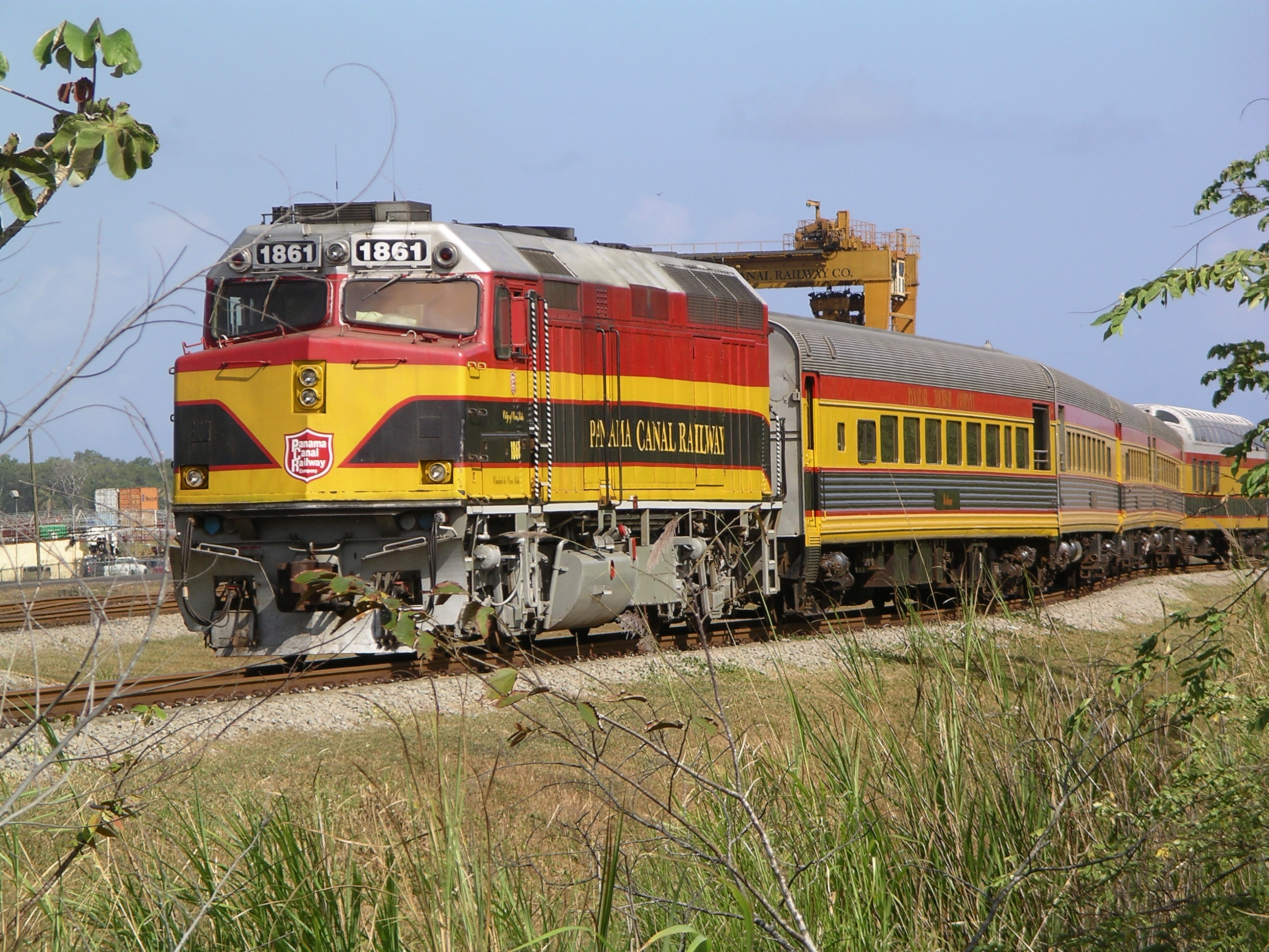 Panama Canal Railway - Passenger Train in yard at Colon